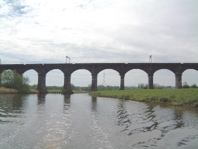 Photograph